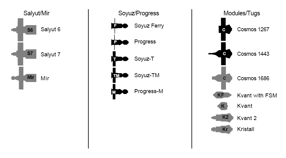 Figure 2-10. Key to icons. Salyut 6 and Salyut 7 each had two docking ports; the Mir base block has two docking ports and four berthing ports. Multiple docking ports mean continual configuration changes as spacecraft come and go and modules are added. The icons shown here are combined in sections 2.7.3, 2.8.3, and 2.9.3 to depict the changing configurations of the three multimodular stations throughout their careers (1977-1994). The icons and icon combinations are strictly representative, and do not depict the true orientation of solar arrays or true relative sizes.